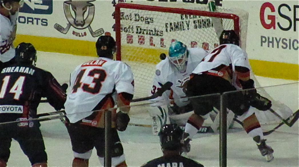 San Francisco Bulls goalie Thomas Heemskerk defending against the Ontario Reign on November 10, 2012 at Cow Palace.